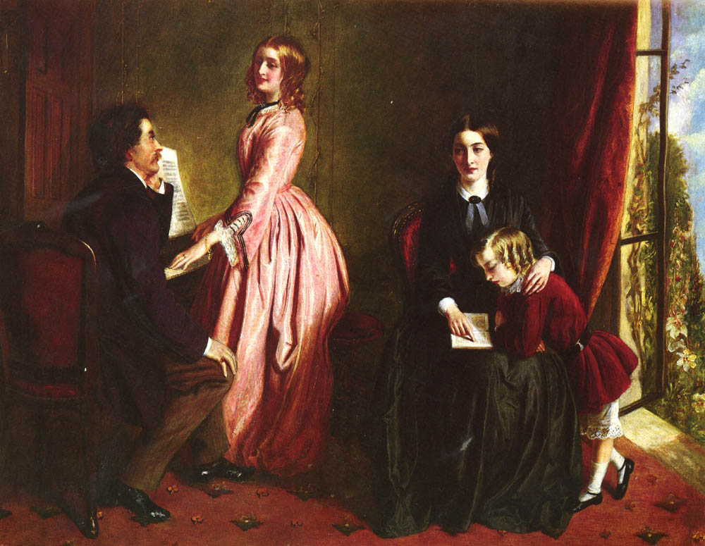 A young woman, identified through the title as a Victorian governess, charged with looking after a family's younger children, is contrasted with one of the daughters of the family, who is engaged in flirting with a young man.